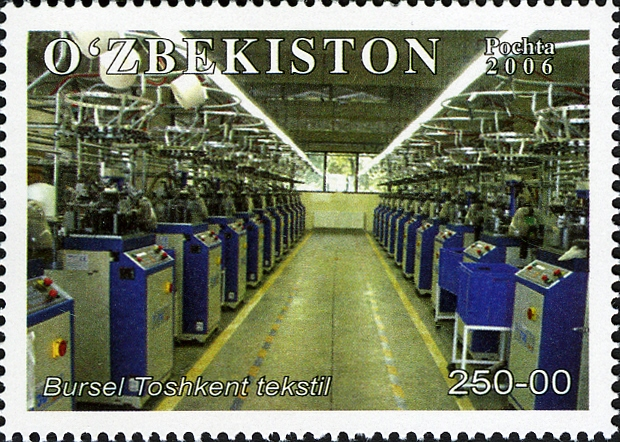 Stamps of Uzbekistan, 2006